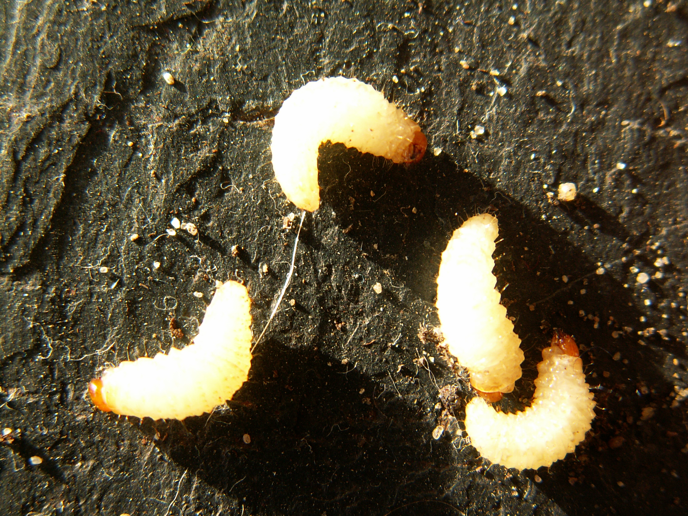 Otiorhynchus sulcatus